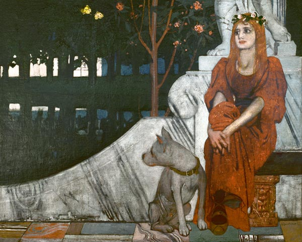 Sehnsucht